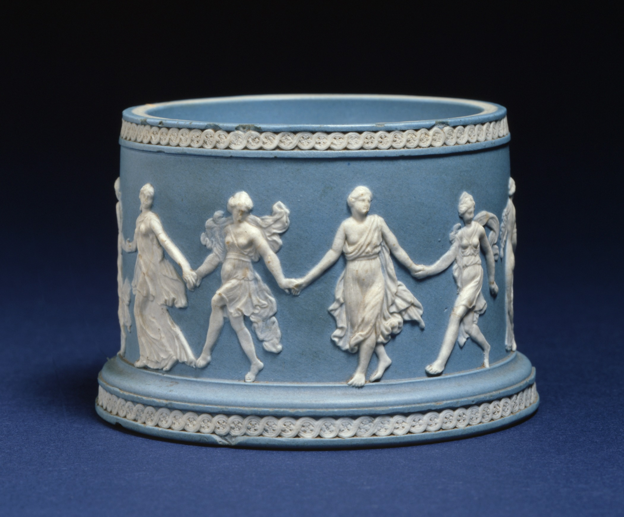 England, circa 1780-1785 Furnishings; Serviceware Stoneware, solid blue jasper with white applied decoration Gift of Alice Braunfeld (M.82.206.8) Decorative Arts and Design